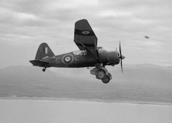 Westland Lysander of No. 5 Air Observers School based at Jurby, Isle of Man, in flight off the Manx coast